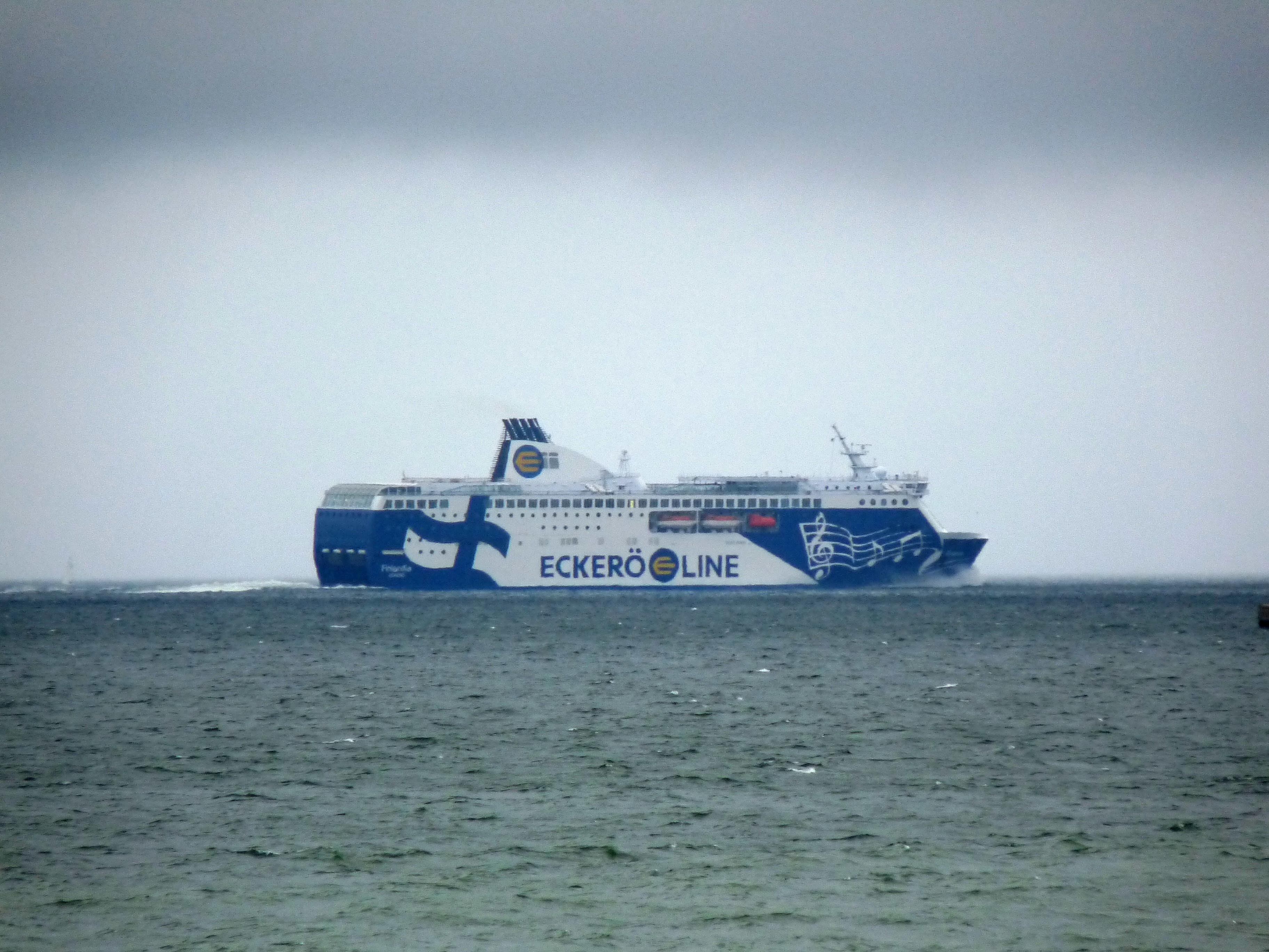 Finlandia ship in Tallinn Bay